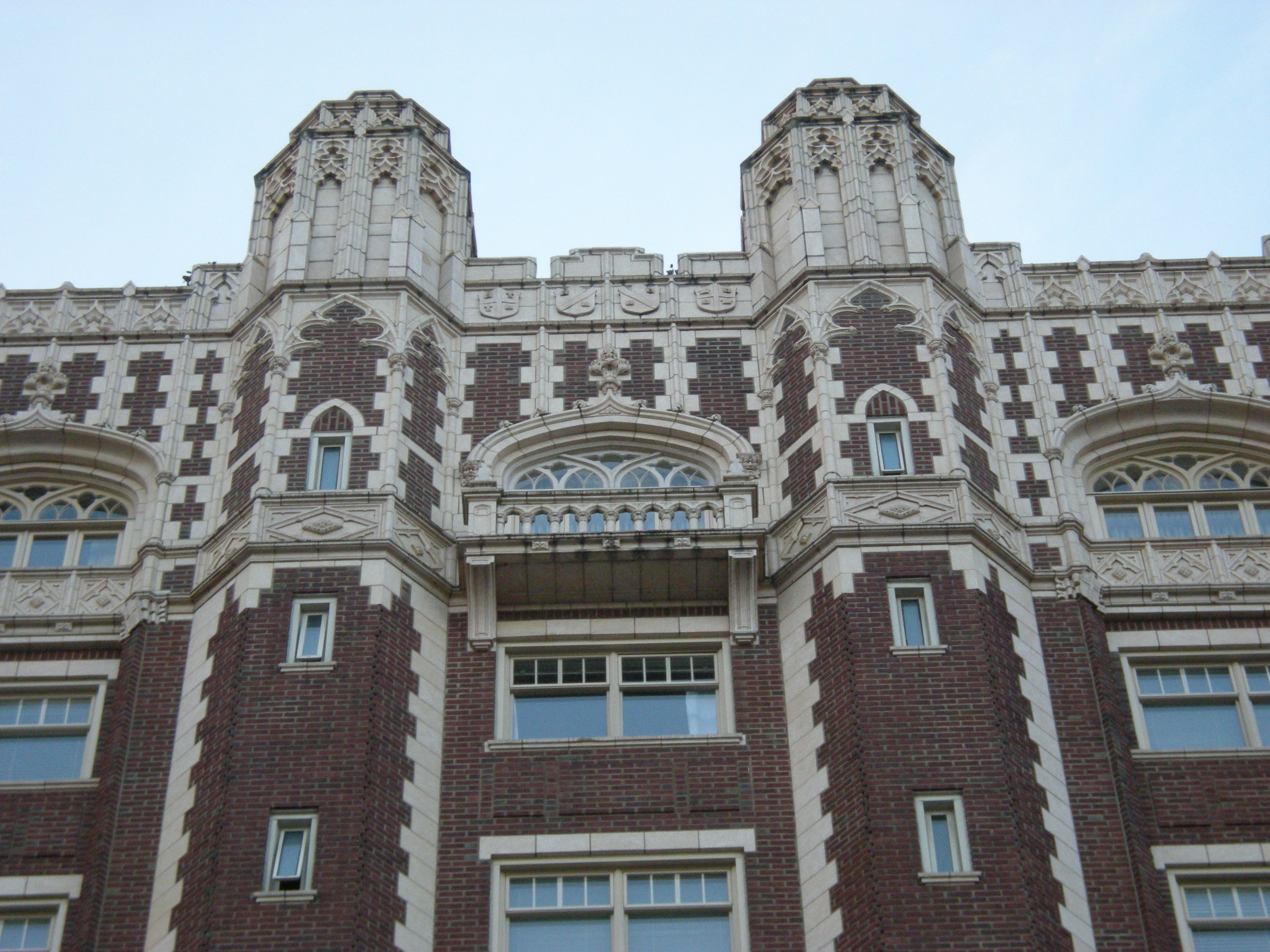 Upper portion of Camlin Hotel, Seattle, Washington. The building was added to National Register of Historic Places 1999 - Building - #99000405.